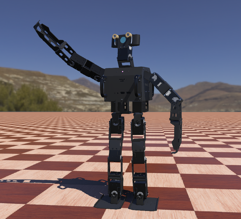 Robotis-Op3 simulation